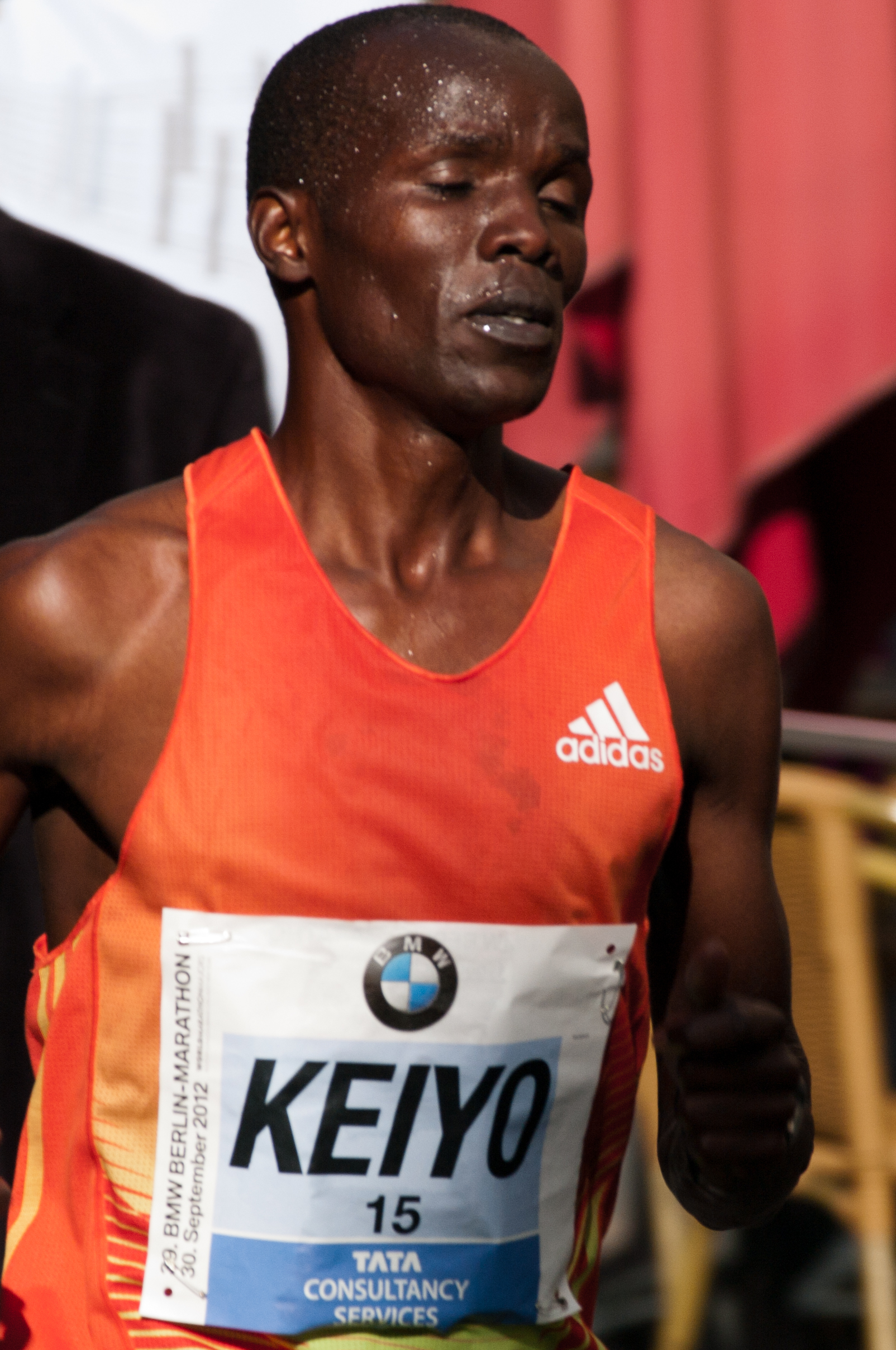 Kenyan runner Josphat Keiyo at the Berlin Marathon 2012. Here on Bülowstraße, between Kilometers 36 and 37.